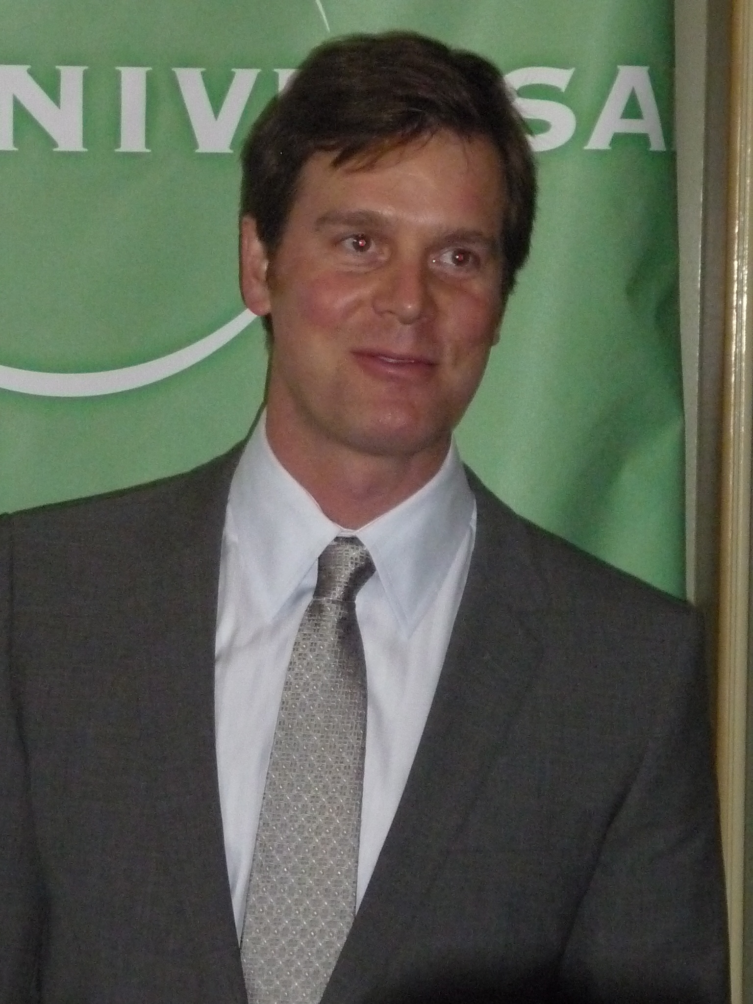 Image of actor Peter Krause.